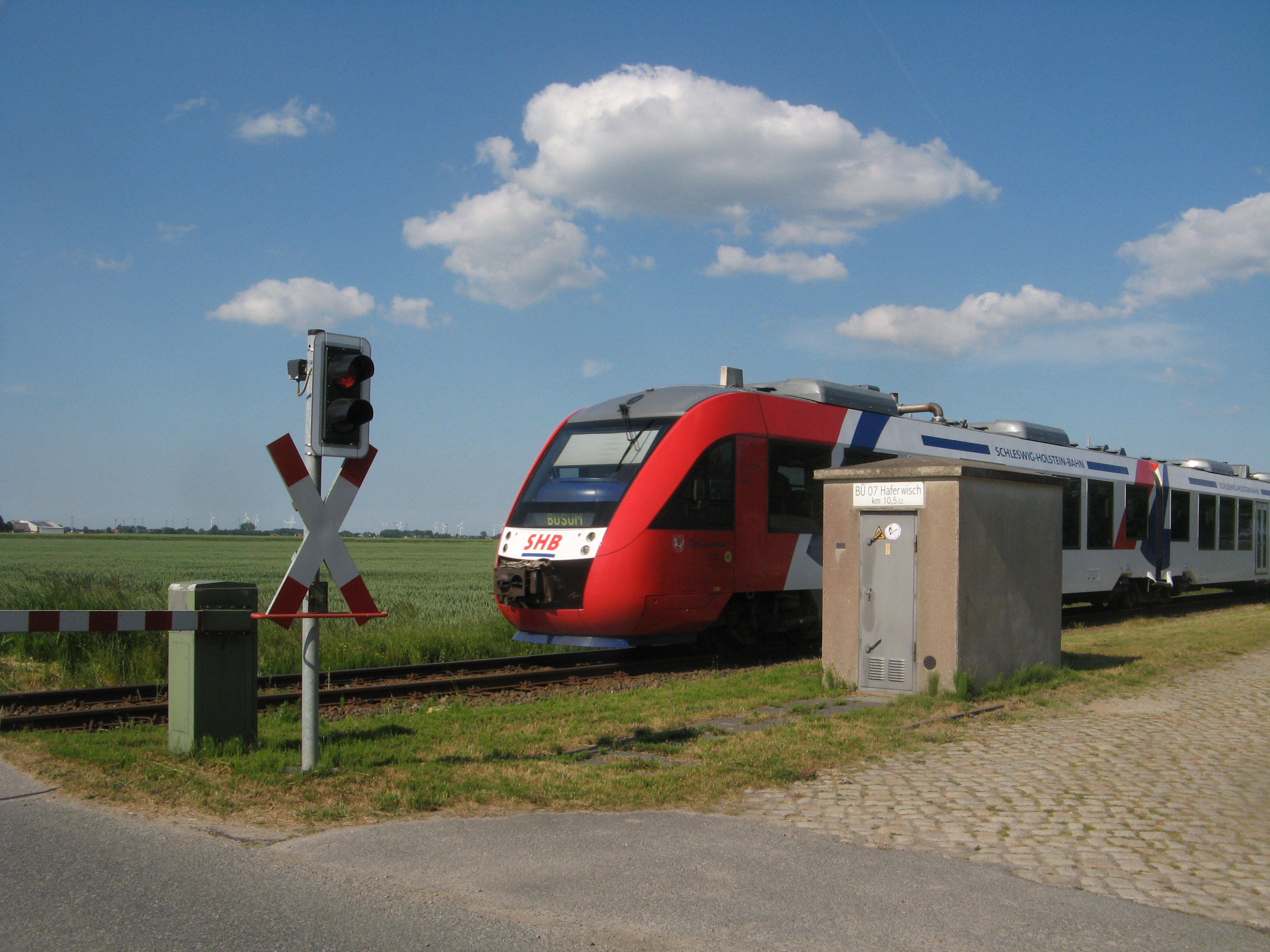 Train of the Büsum-Heide train close to Neuenkirchen, Dithmarschen, Germany in summer